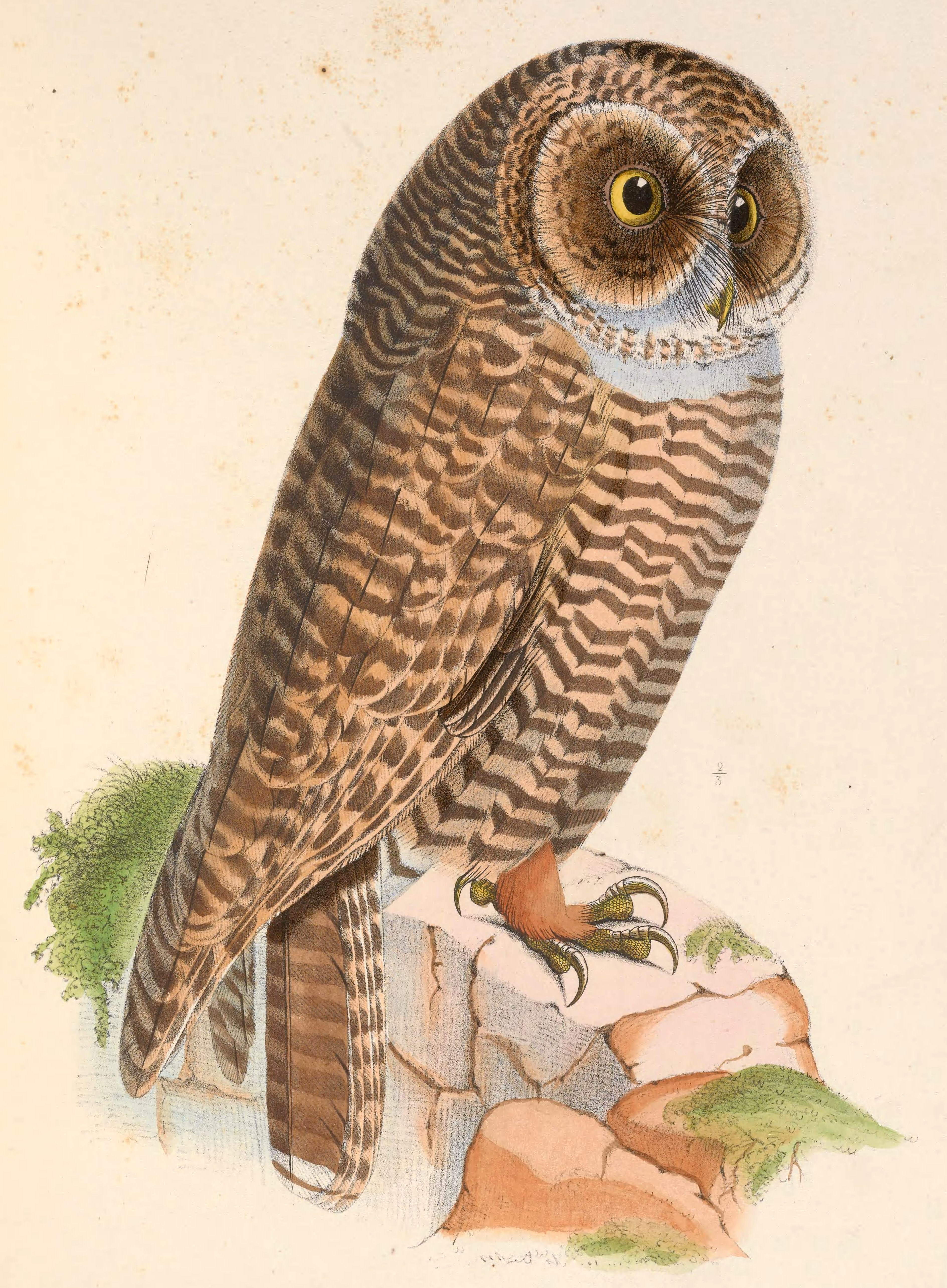 Ulula fasciata = Strix rufipes (Rufous-legged Owl)